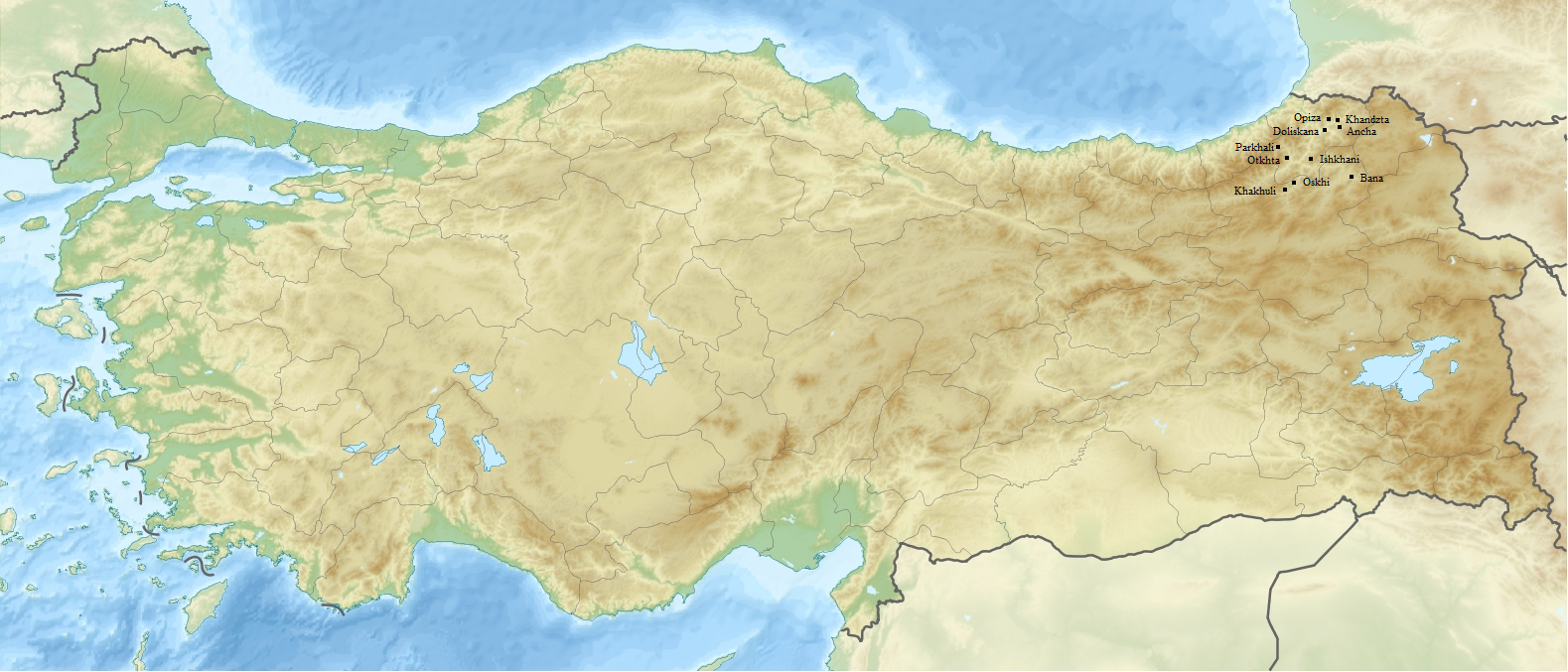 Medieval Georgian churches in Turkey.